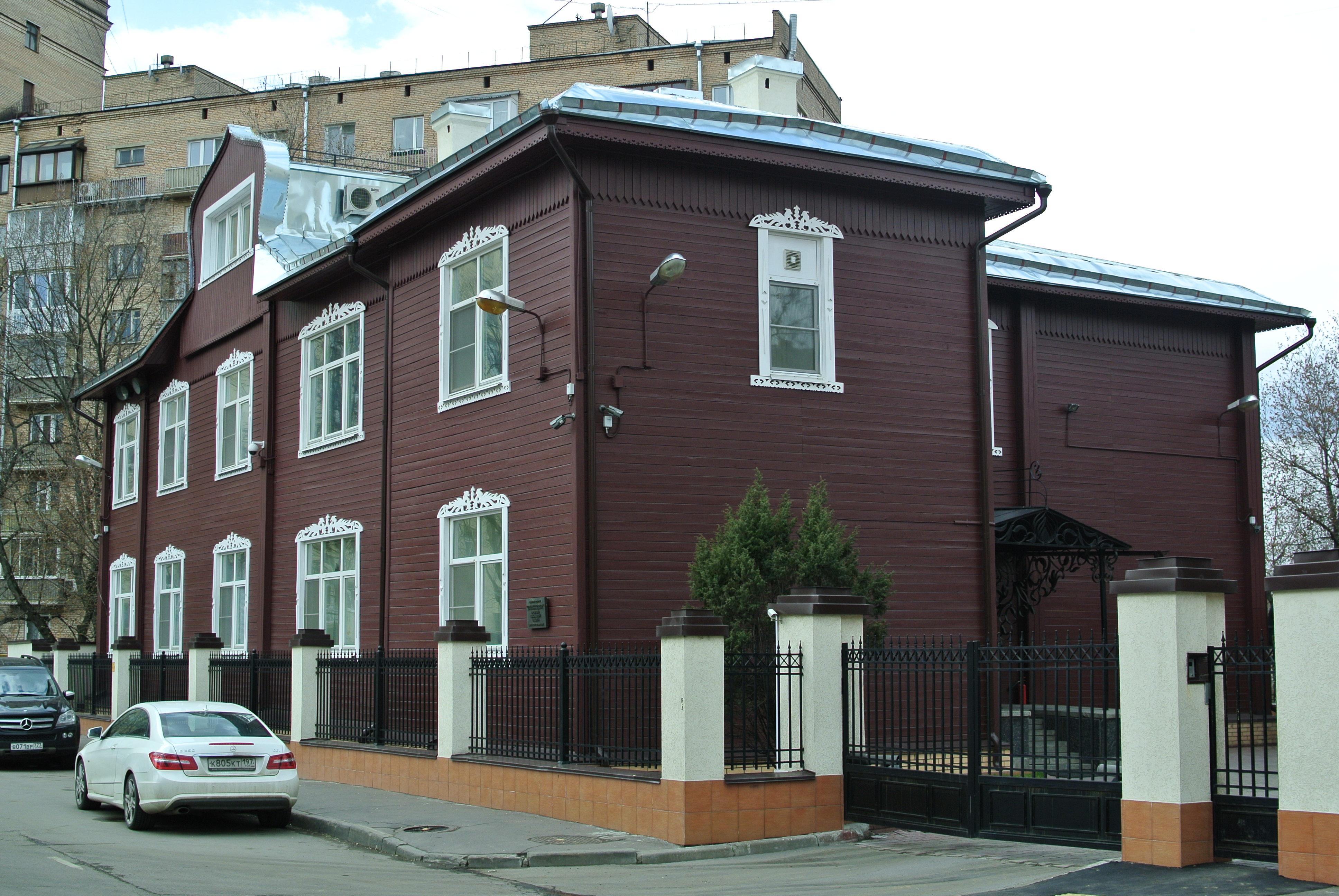 Baksheev's house in Moscow